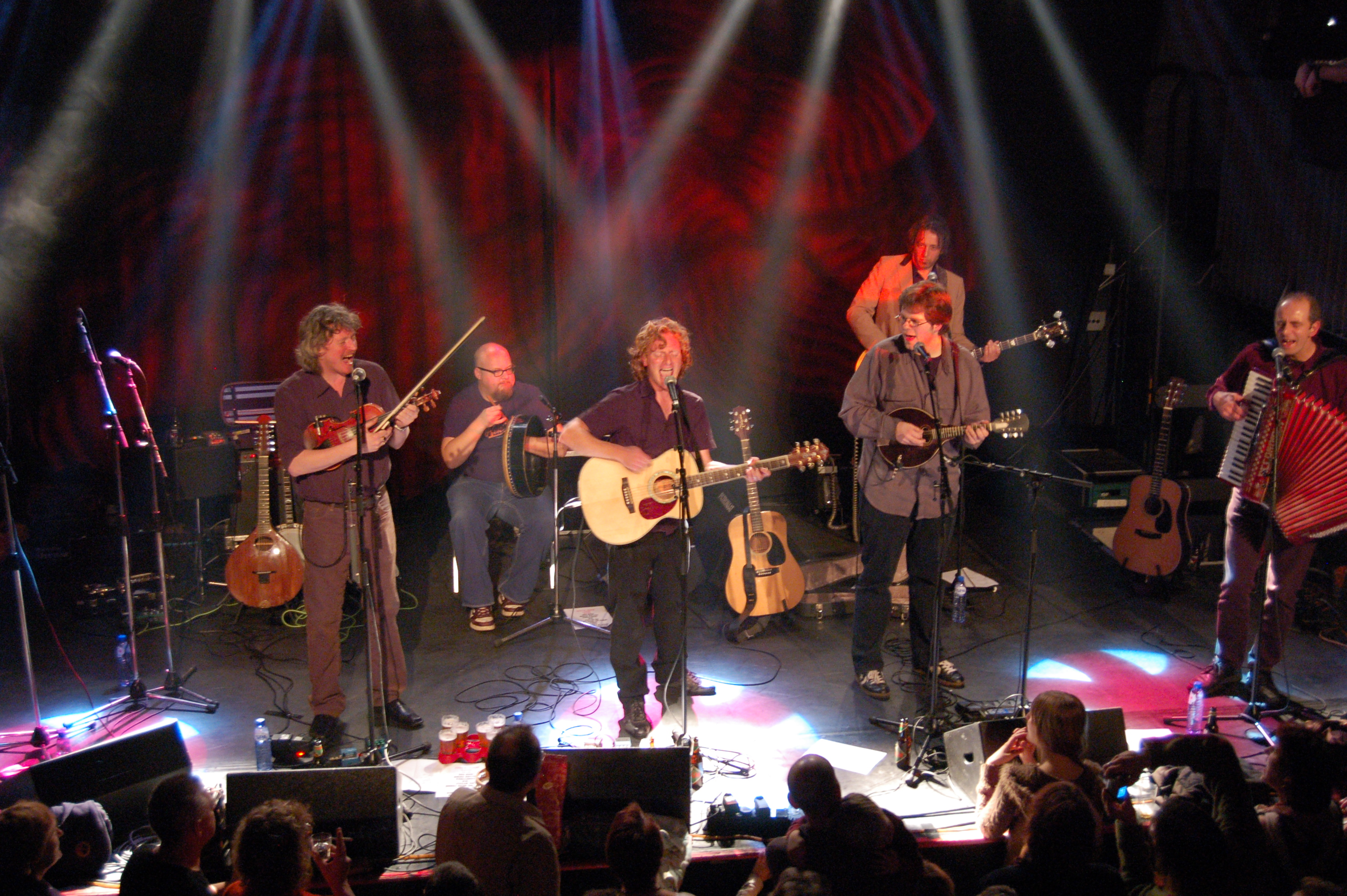 Danny Guinan (center) at the launch of his 2006 CD "John Doe"